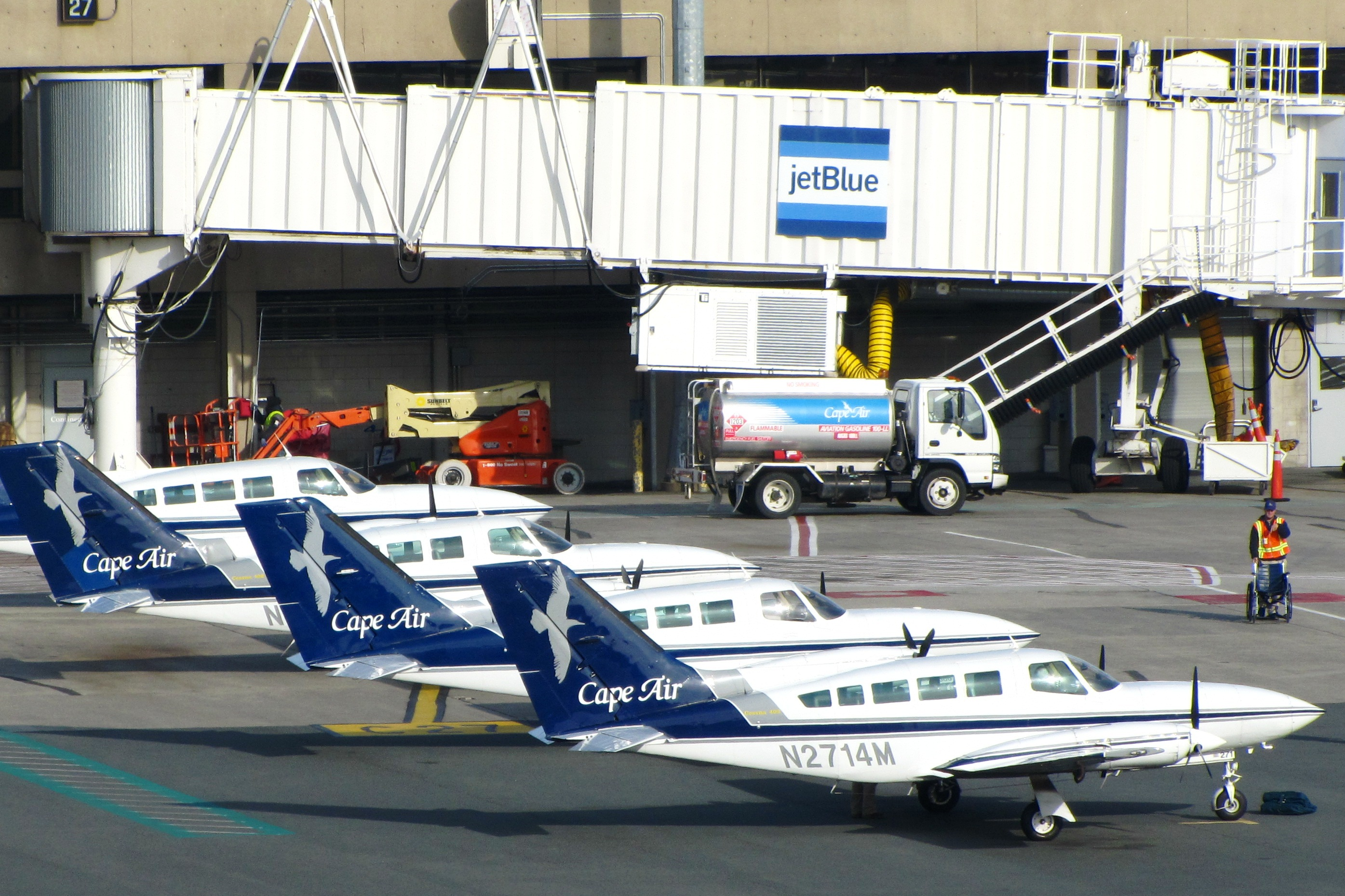 Cape Air Cessna 402 General Edward Lawrence Logan International Airport